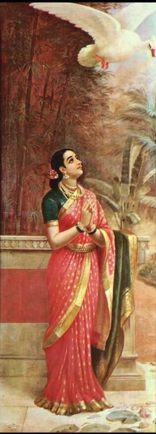 Princess Damayanti, sending the Royal Swan as messenger to Nala.